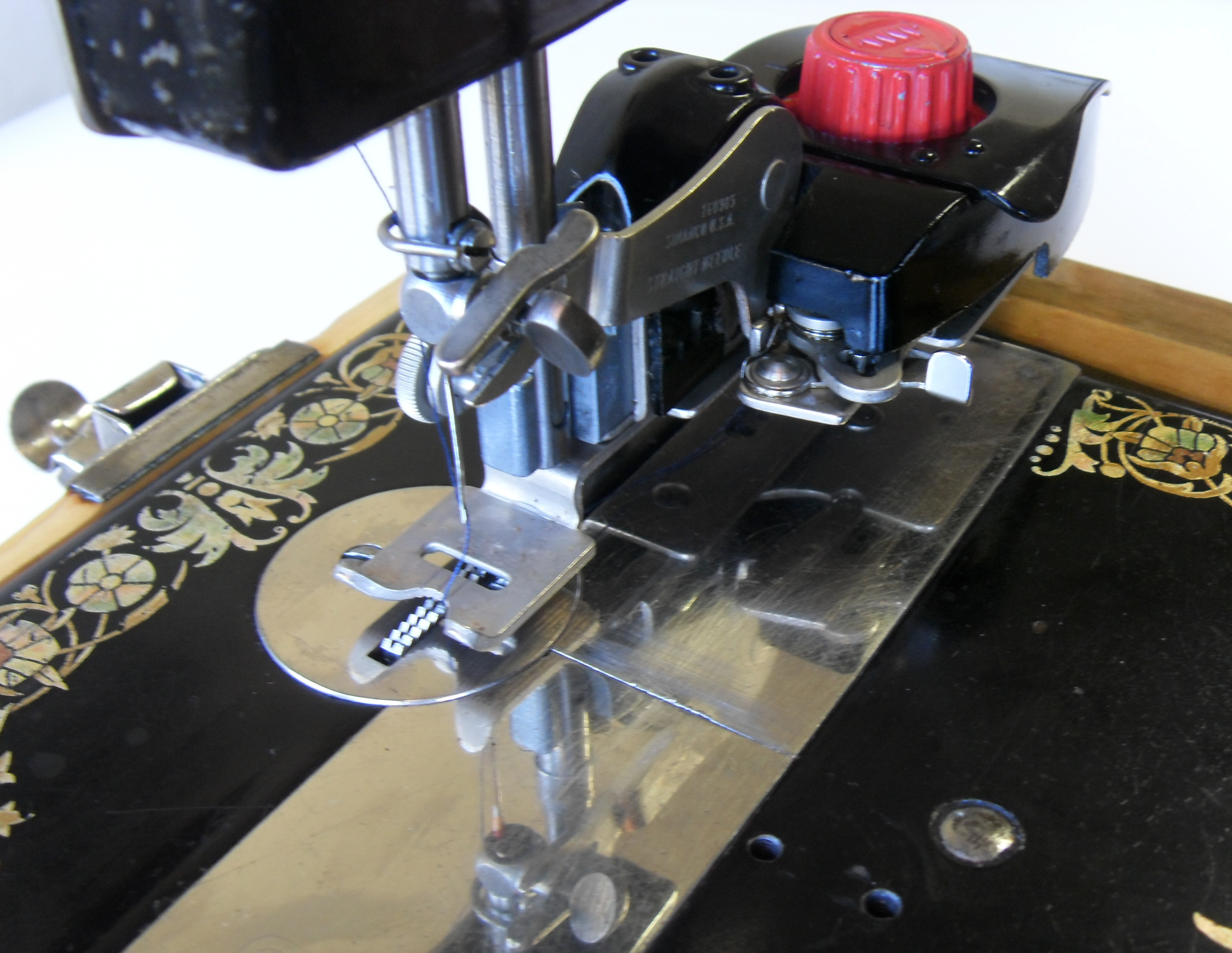 Singer model 160985 automatic zigzagger attachment - shown mounted